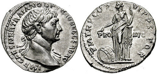 TRAJAN. 98-117 AD. AR Denarius (19mm, 3.48 gm). Struck 115-116 AD. IMP CAES NER TRAIANO OPTIMO AVG GER DAC, laureate head right, drapery on left shoulder PRO AVG across field, P M TR P COS VI P P S P Q R, Providentia leaning left on column, pointing to globe at feet and holding sceptre. RIC II 358; RSC 308.